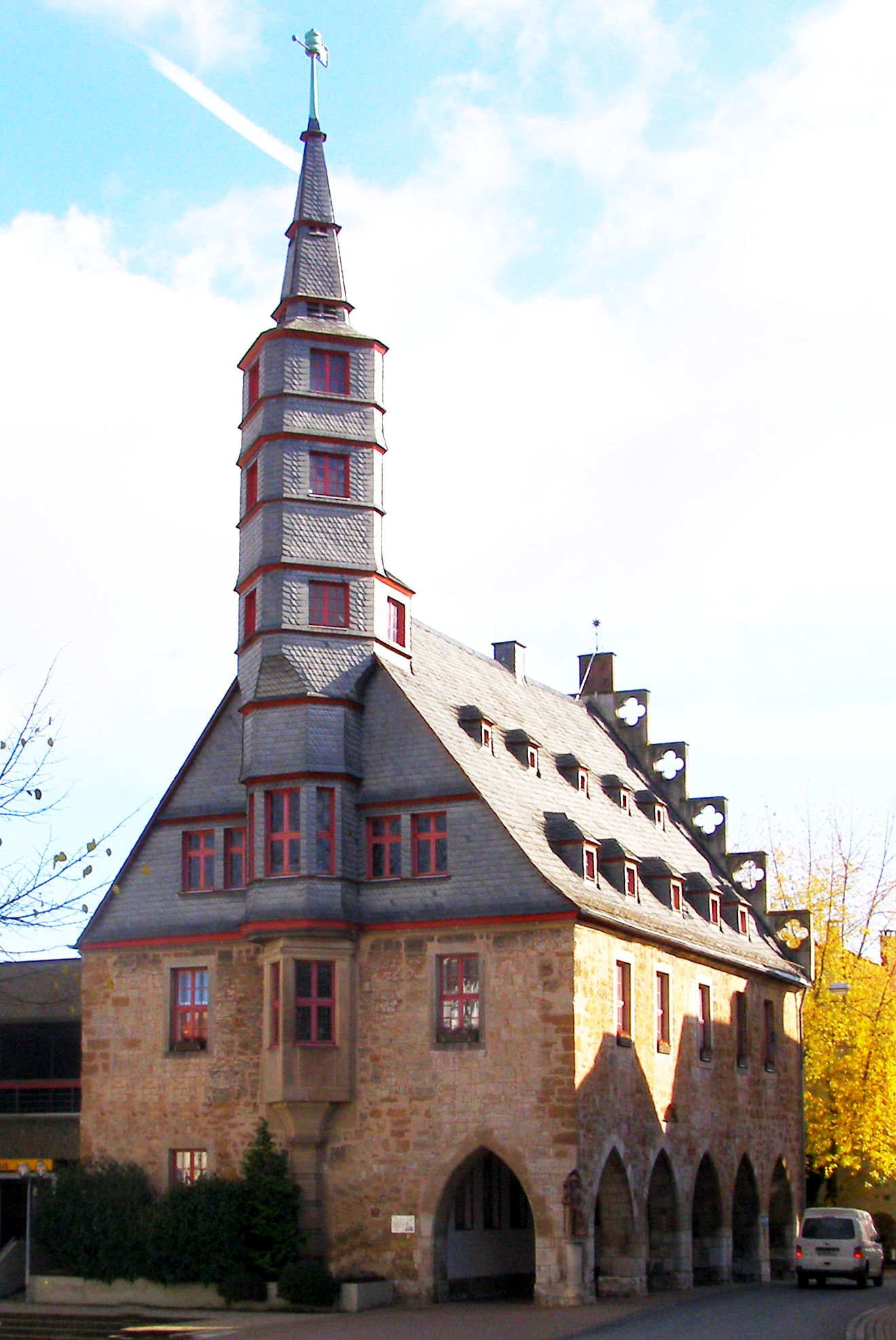 Rathaus Korbach (Town Hall) at Korbach (Hassia/Germany)